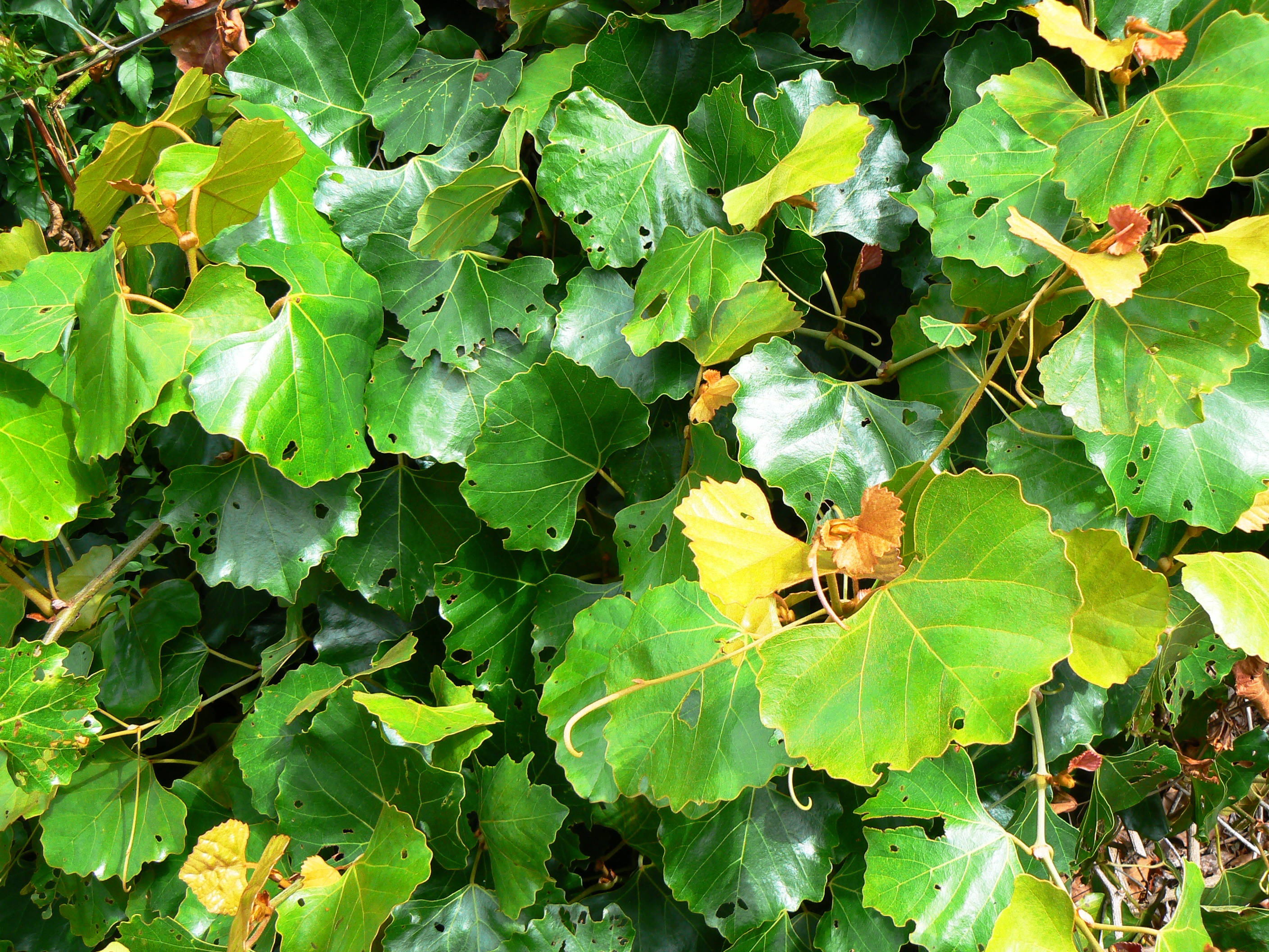 A Cape Grape creeper, photo taken in Cape Town